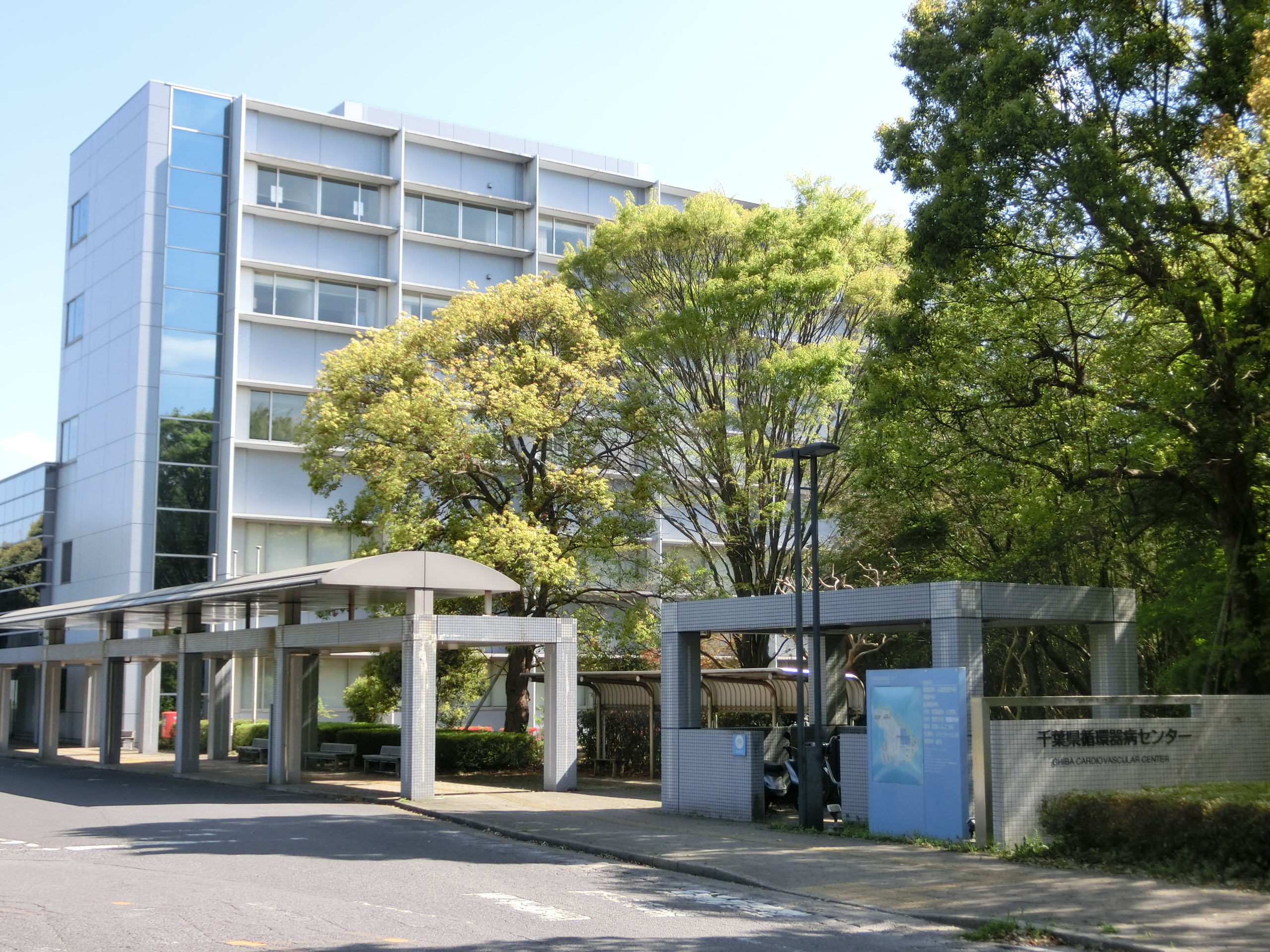 Chiba Cardiovascular Center